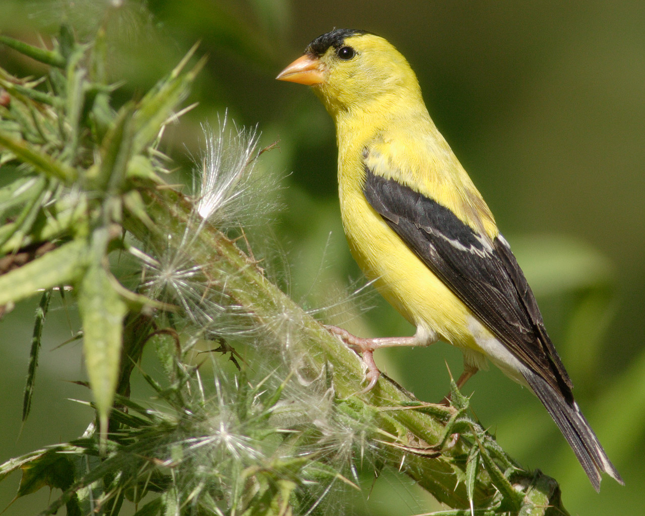 American Goldfinch Carduelis tristis, Fort Erie, Ontario, Canada, 2005; de: Goldzeisig